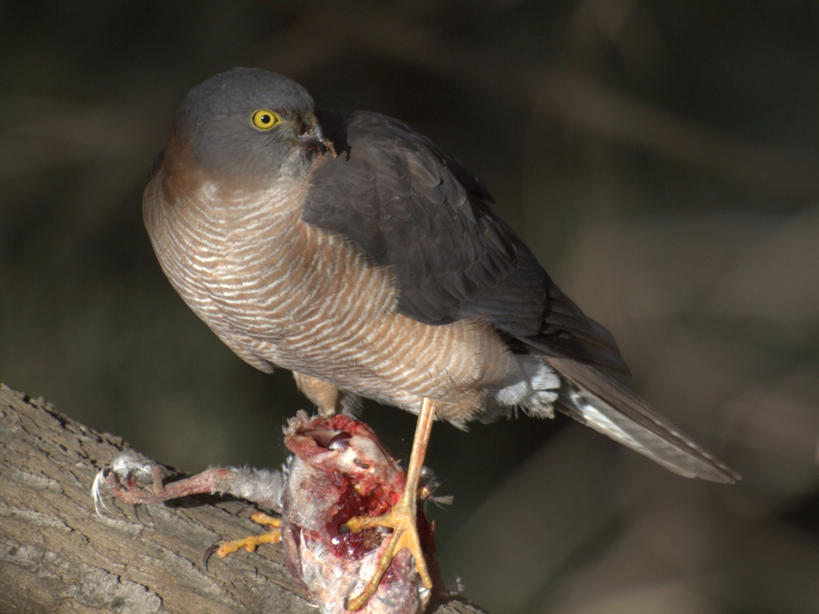 A Collared Sparrowhawk in Camberra, Australia. It has cought a bird.